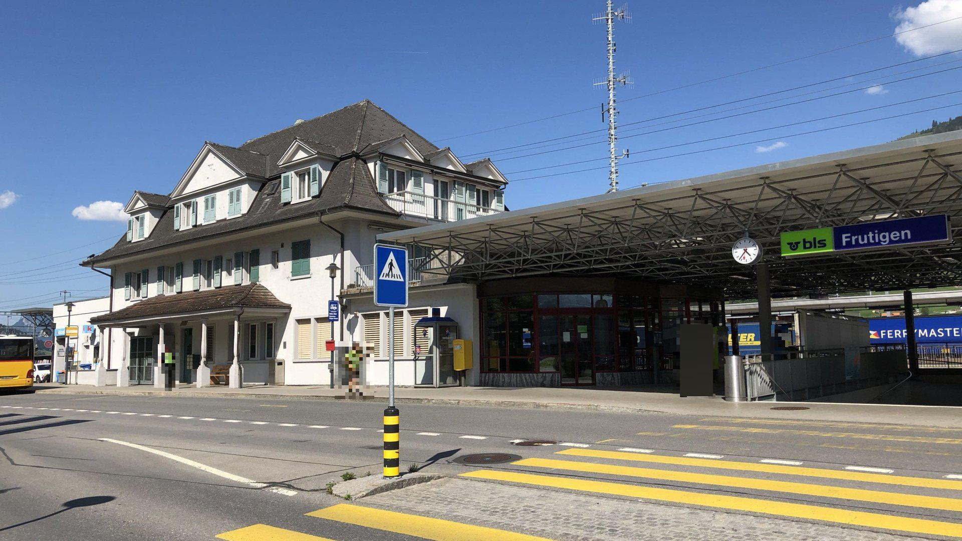 Frutigen railway station in Frutigen, Switzerland.